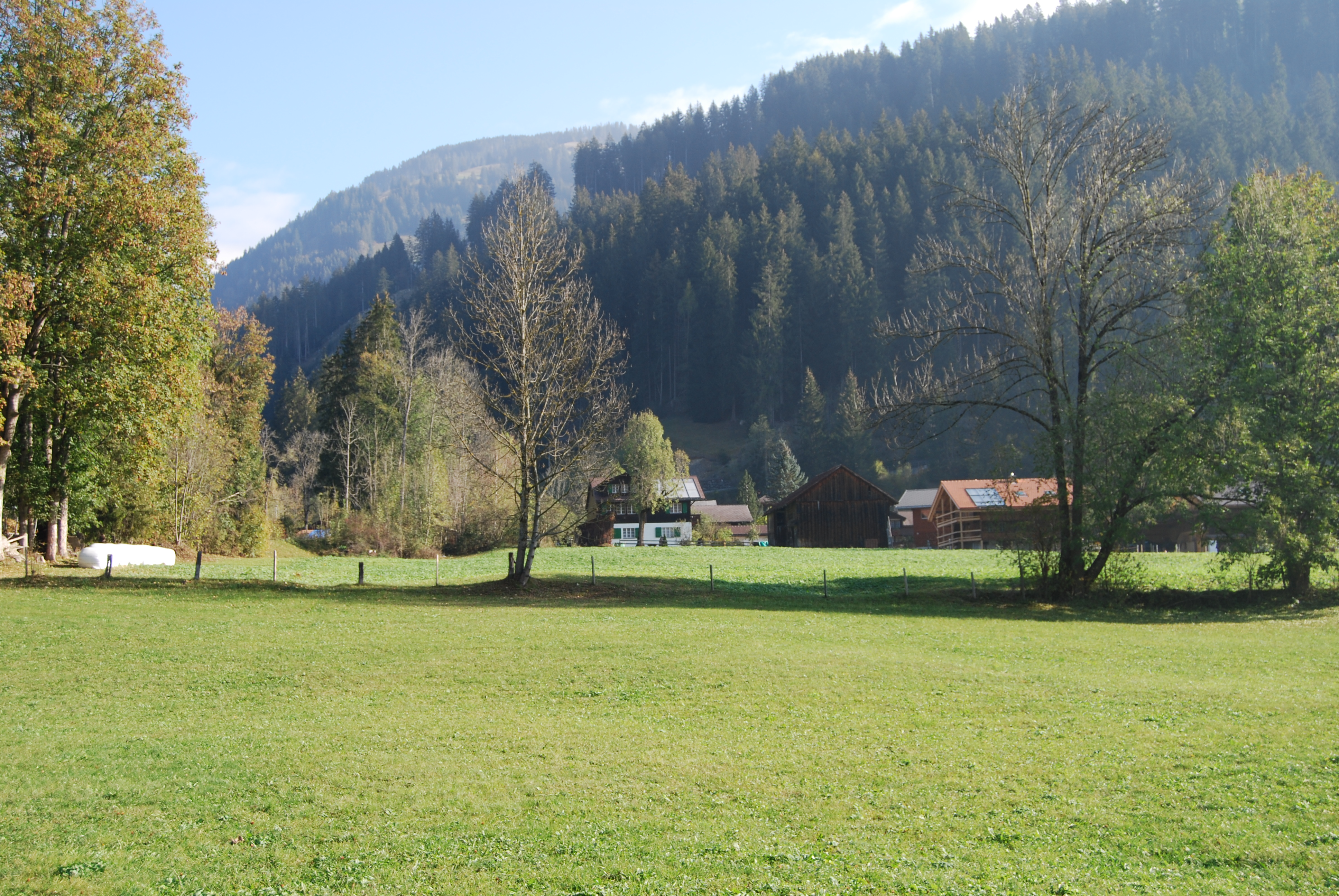 Matten im Simmetal, municipality of St. Stephan, canton of Bern, SwitzerlandEsperanto: Matten en Simme-Valo, komunumo Sankt-Stefano, Kantono Berno, Svislando